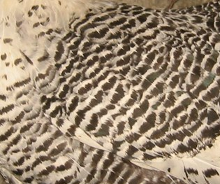 A silver Campine hen